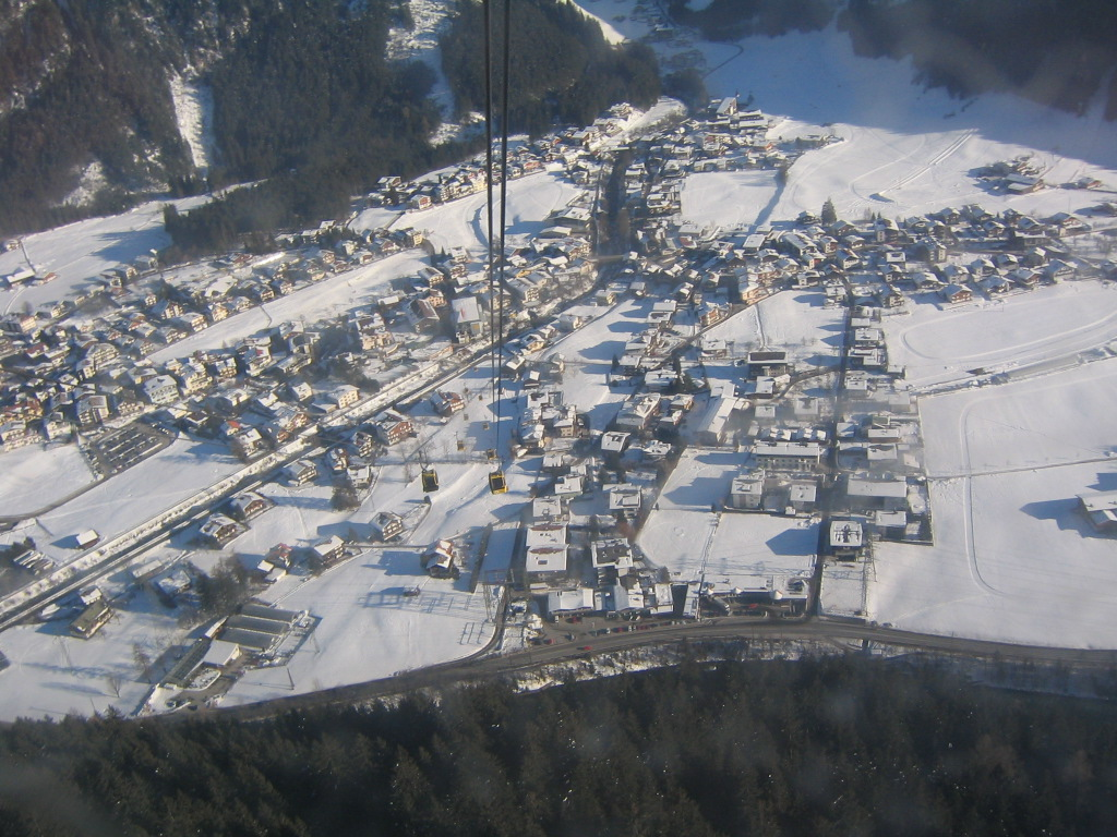 Picture of Austrian village of Mayrhofen